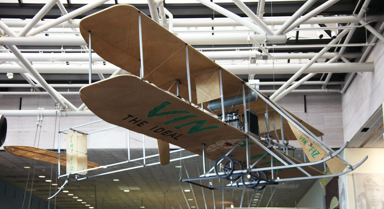 The Wright Flyer EX Vin Fiz, displayed in the Main Hall at the Smithsonian Air and Space Museum in Washington, D.C. Calbraith Perry Rodgers purchased a specially-built Wright airplane in August 1911. He became the first person to purchase an aircraft. The Wrights called their plane the Model EX. The plane had a 35 horsepower engine allowed a speed of 50 miles per hour. Since the plane would be stopping constantly, refueling, and needing repairs, Rodgers persuaded meatpacking multi-millionaire J. Ogden Armour to sponsor the attempt. Ogden's company had just released a new grape soda, Vin Fiz. Ogden asked that the plane bear the soft drink's name. The Rodger's transcontinental flight began on September 17, 1911, at Sheepshead Bay, New York. Rodgers landed in Pasadena, California on November 5. The Smithsonian acquired the Vin Fiz in 1934, and it was restored in 1960.